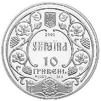 Coin of Ukraine